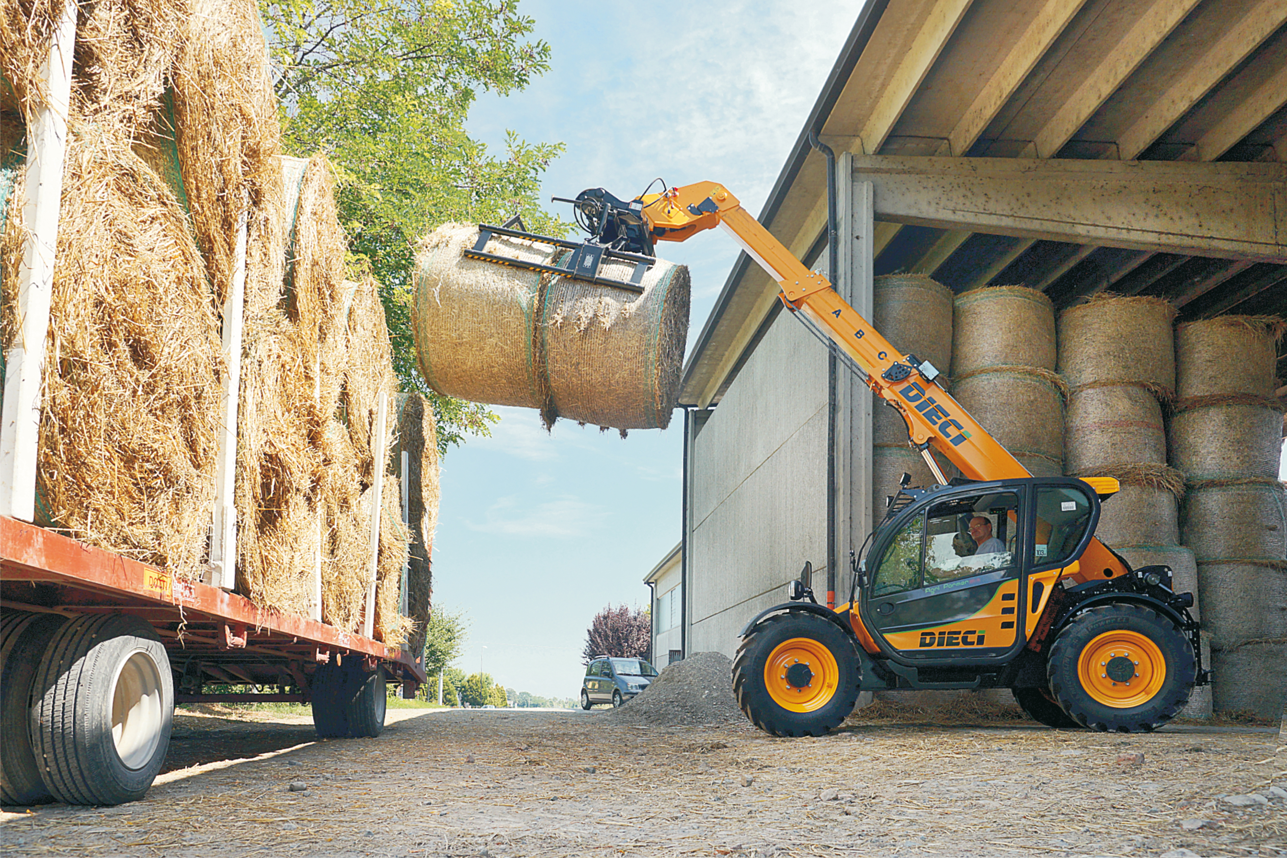 Dieci telescopic handler fitted with a bale handling atatchment